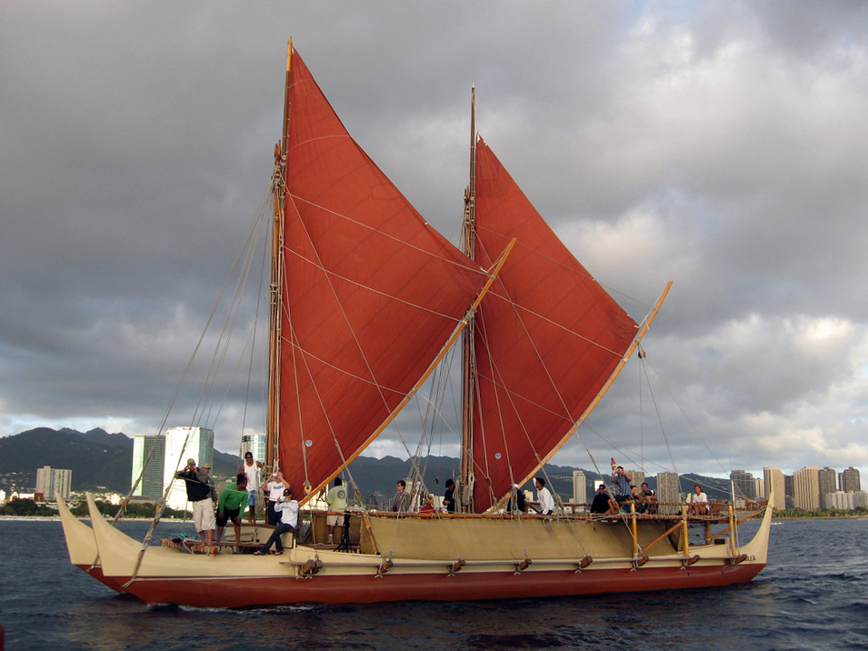 Hōkūle`a, a Hawaiian wa'a kaulua or voyaging canoe, sailing off Honolulu, photo taken from onboard the Chinese junk Princess Taiping, January 22, 2009.